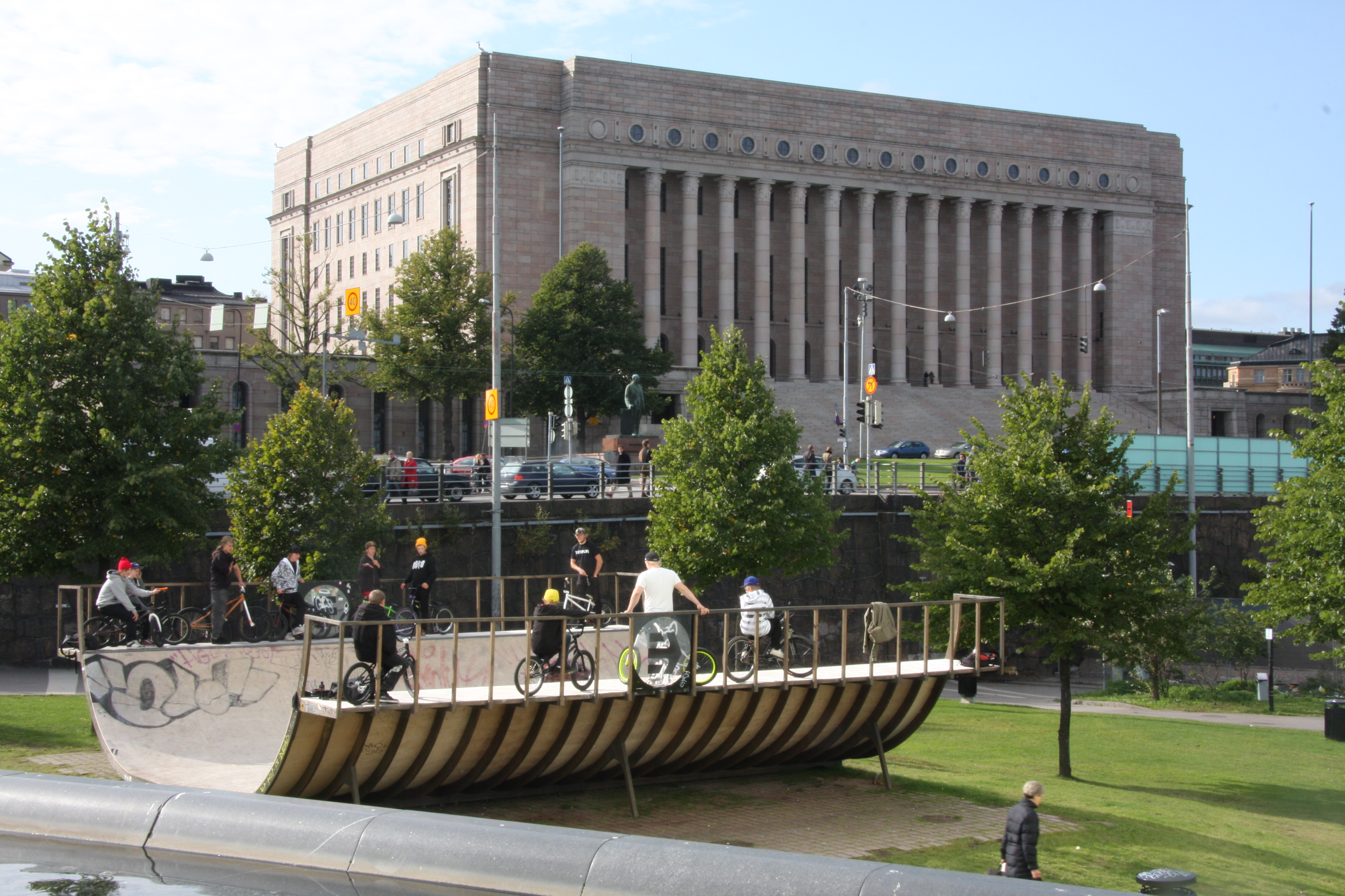 Parliament House of Finland, Helsinki